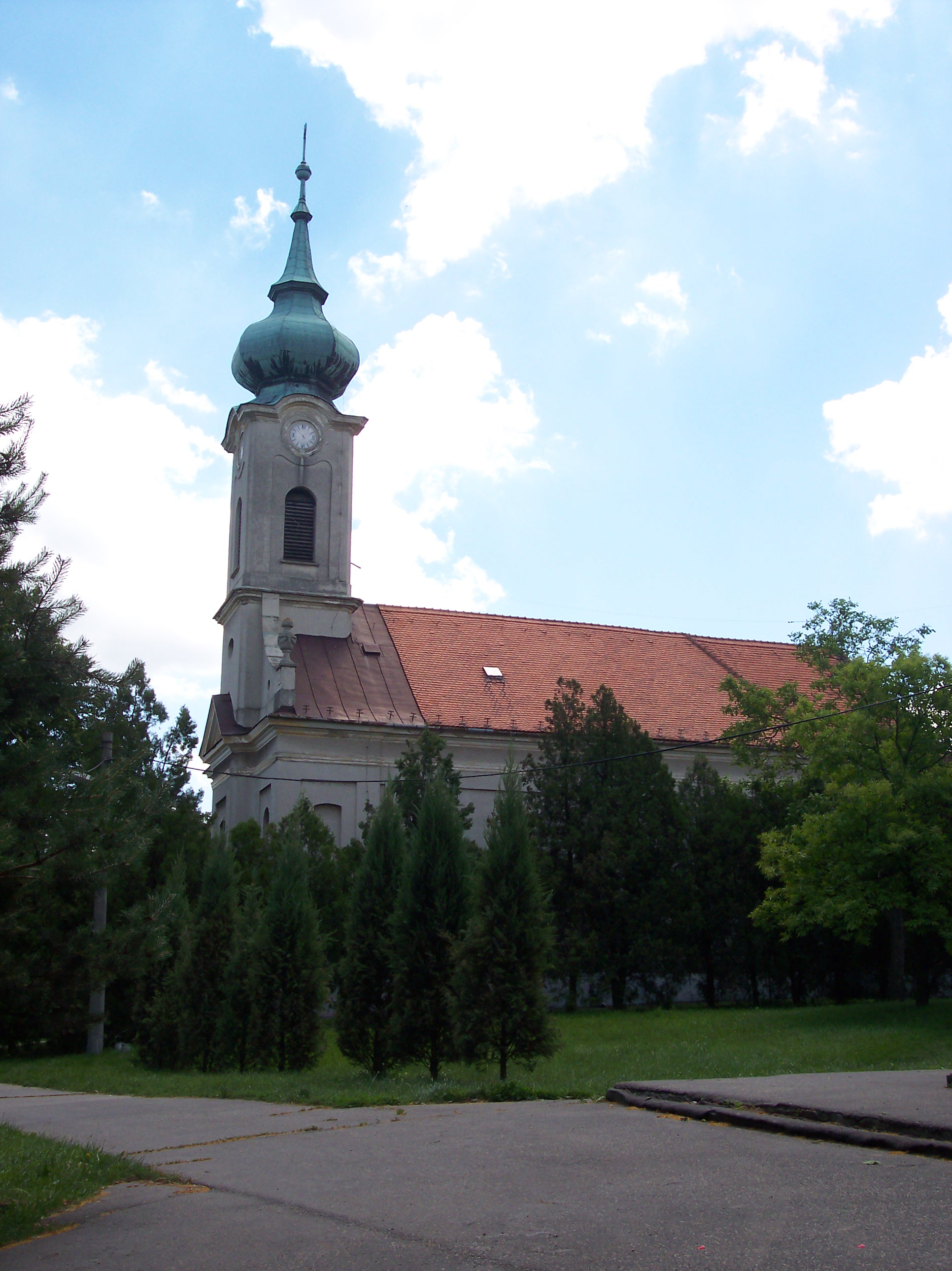 Church in Lukáčovce